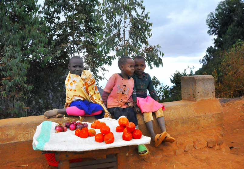 Onions and tomatoes